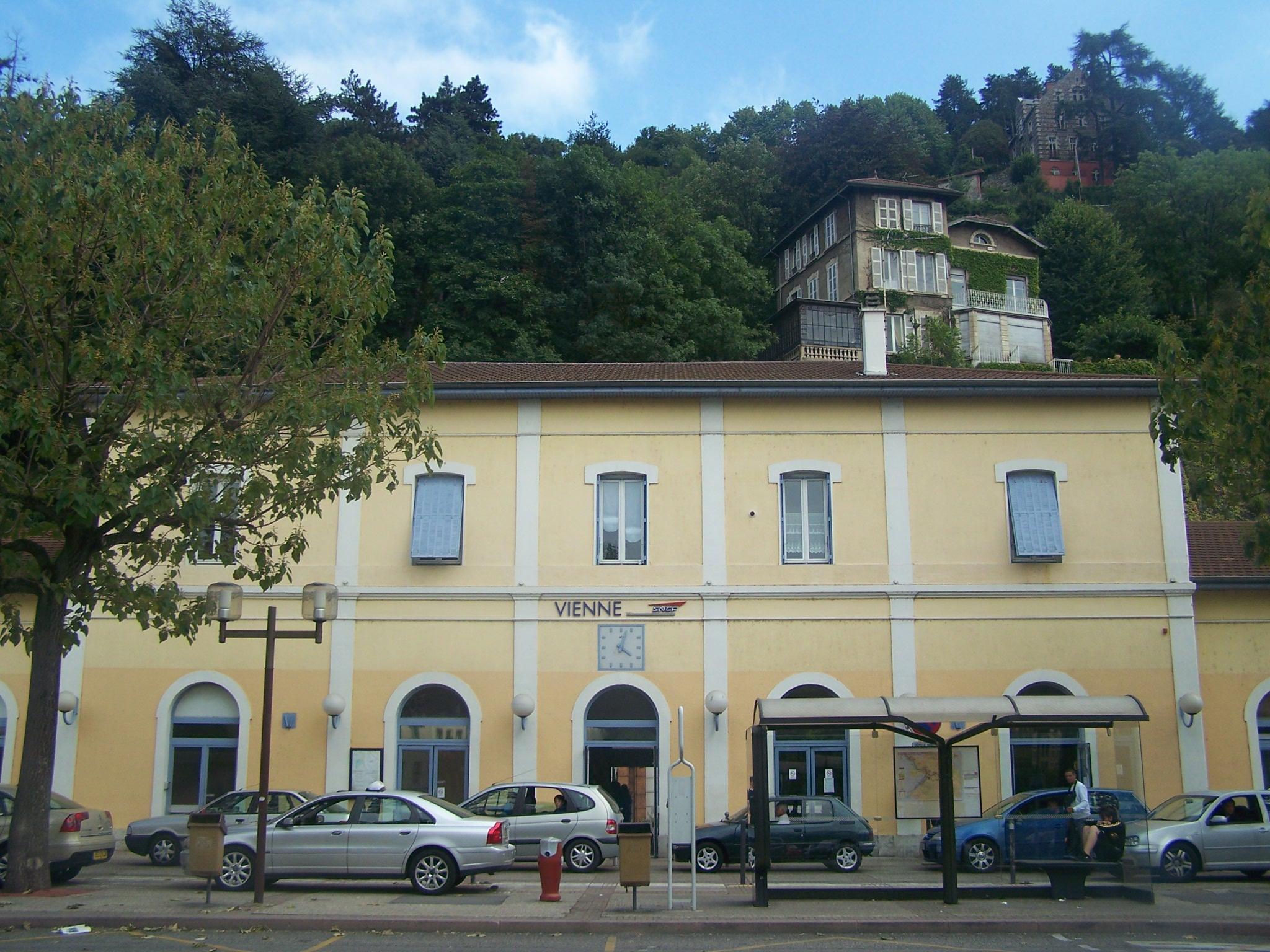 Front of the French commune of Vienne 's station, in Isère.